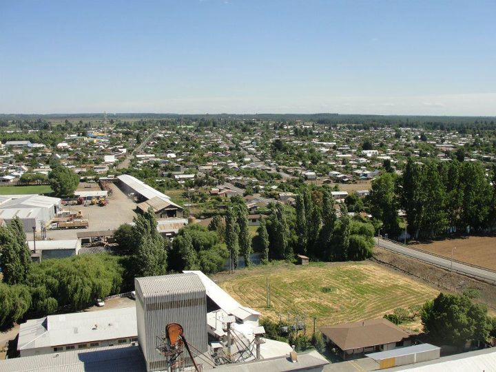 Panoramicahuepil